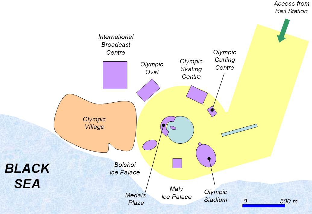 Image:Olympic park.JPG, converted to PNG